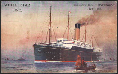 The Haverford, ship from American Line and White Star Line scrapped in 1925.